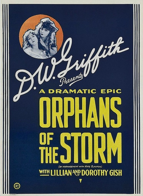 American cinema poster from 1921-1922 for D. W. Griffith's film Orphans of the Storm (1921).